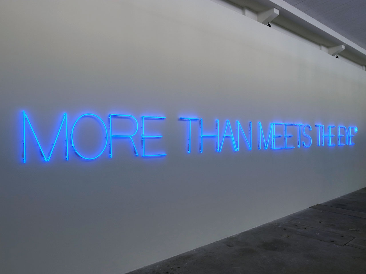 MORE THAN MEETS THE EYE by Maurizio Nannucci